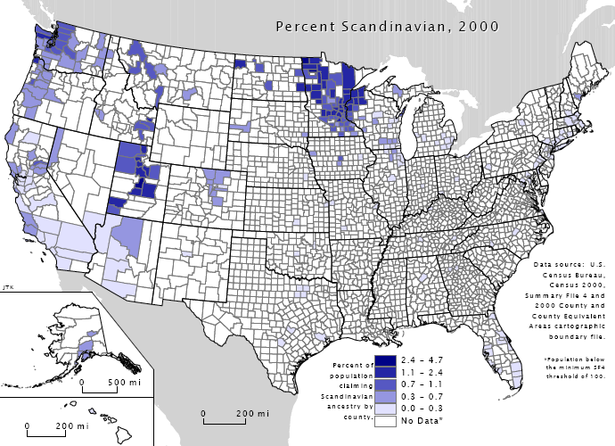 Diagram indicating Scandinavian American settlement in the United States. Image as based on the census 2000 by the U.S. Census Bureau. Badagnani (talk) 08:30, 23 May 2009 (UTC)